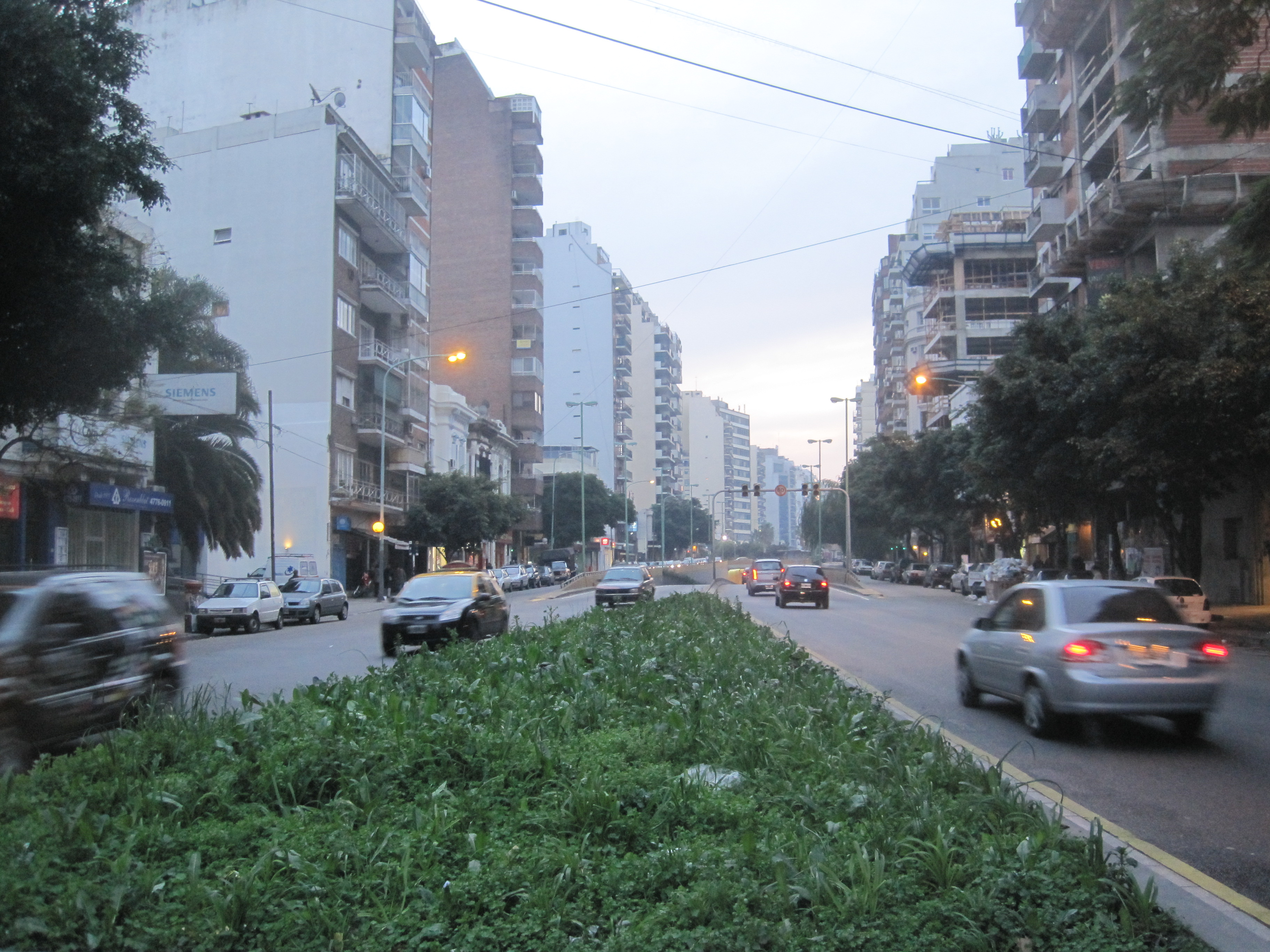 Santa Fe Avenue, approaching the Carranza Viaduct, in the Palermo section of Buenos Aires.